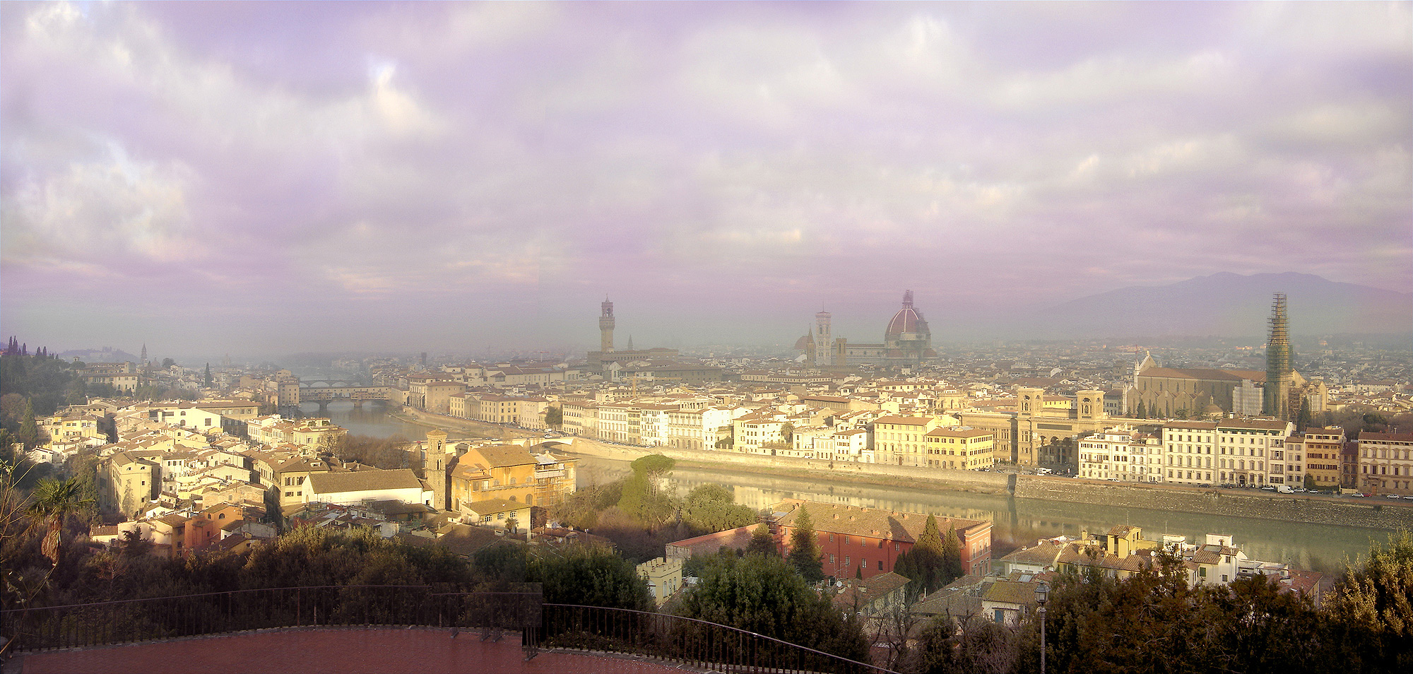 Panorama of Florence, Italy, seen from Piazzale Michelangelo.